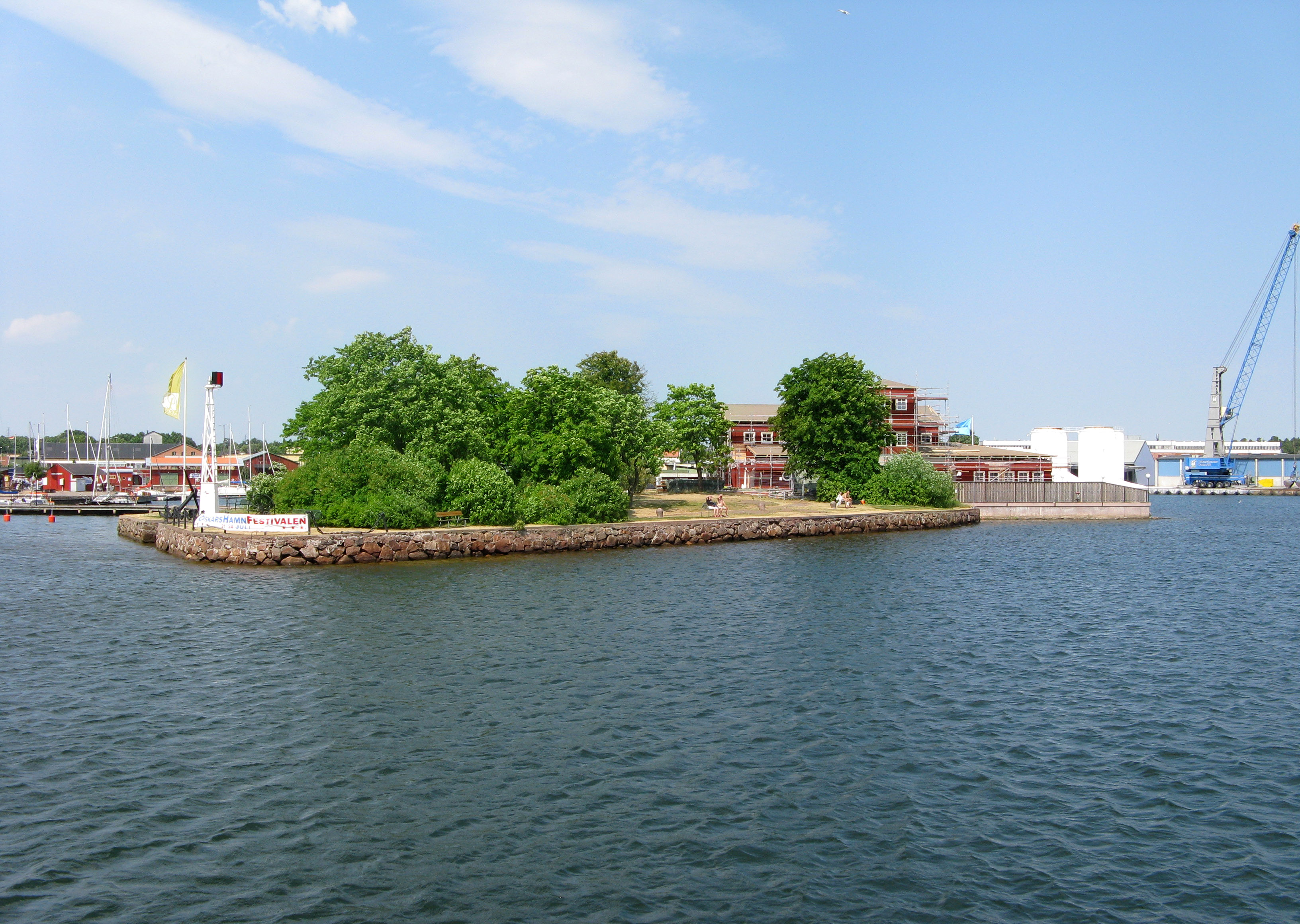 The island of Badholmen in Oskarshamn, Sweden, Europe.